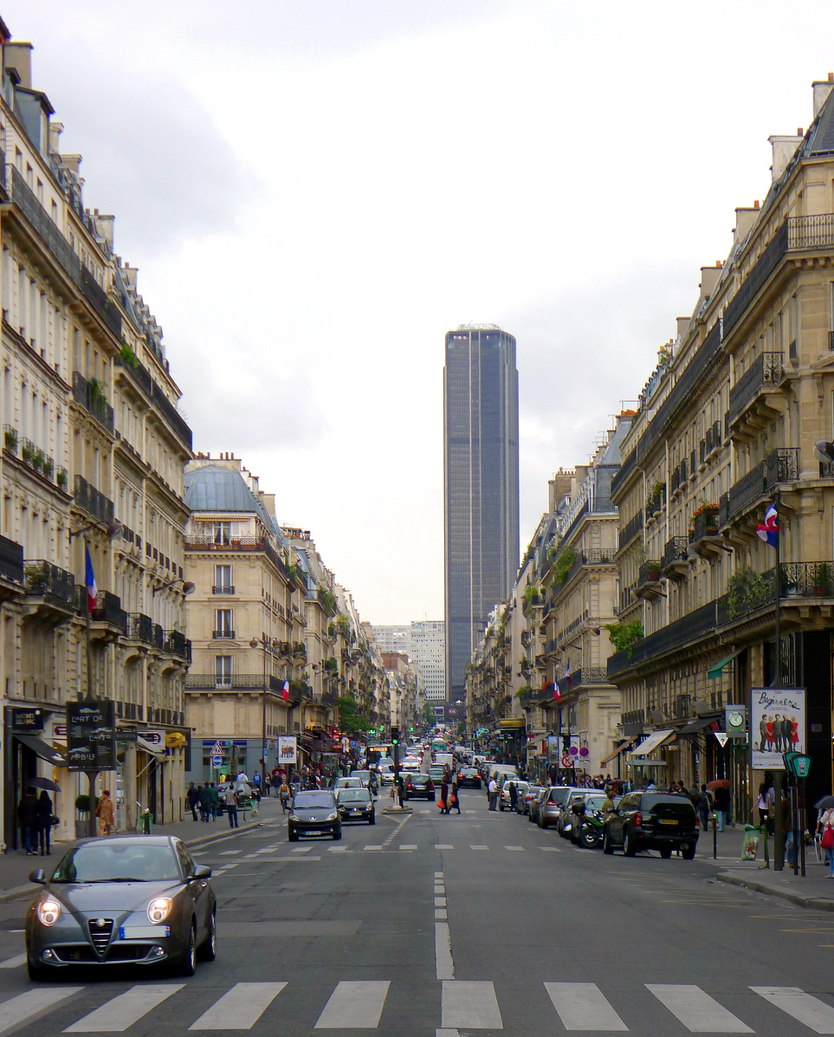 Rennes street (with Montparnasse tower) - Paris